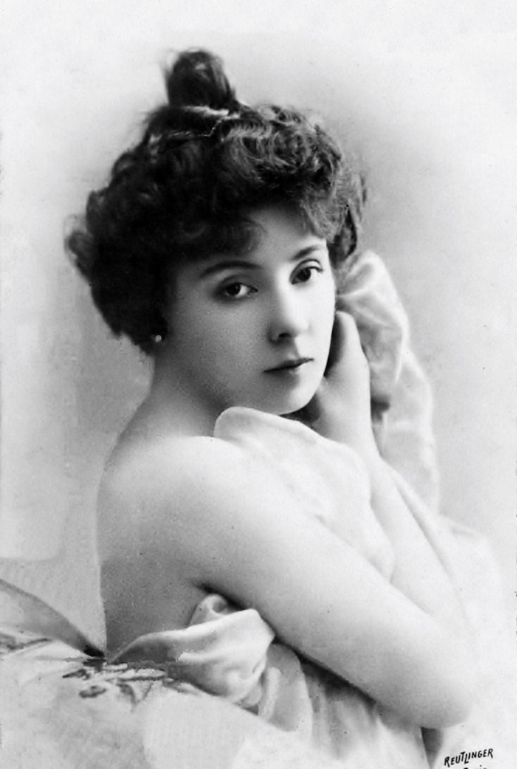 Amélie Diéterle by Léopold-Émile Reutlinger in Paris. Amélie Diéterle is a French actress born in Strasbourg on 20 February 1871 and died in Cannes on 20 January 1941. She was legitimated in Paris in 1892 by Captain Louis Laurent, Knight of the Legion of Honor. Amélie Diéterle married in Vallauris on 16 June 1930 with André Simon (1877-1965). Amélie Diéterle plays mainly at the Théâtre des Variétés in Paris during the Belle Époque.